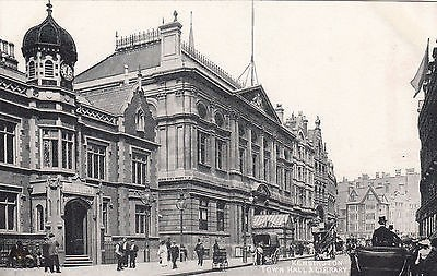 Old photograph of Kensington Town Hall and Library, London